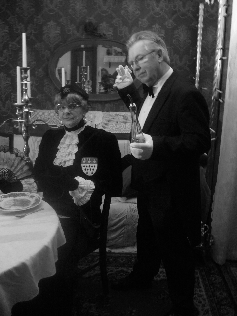 Dinner for one op Kölsch